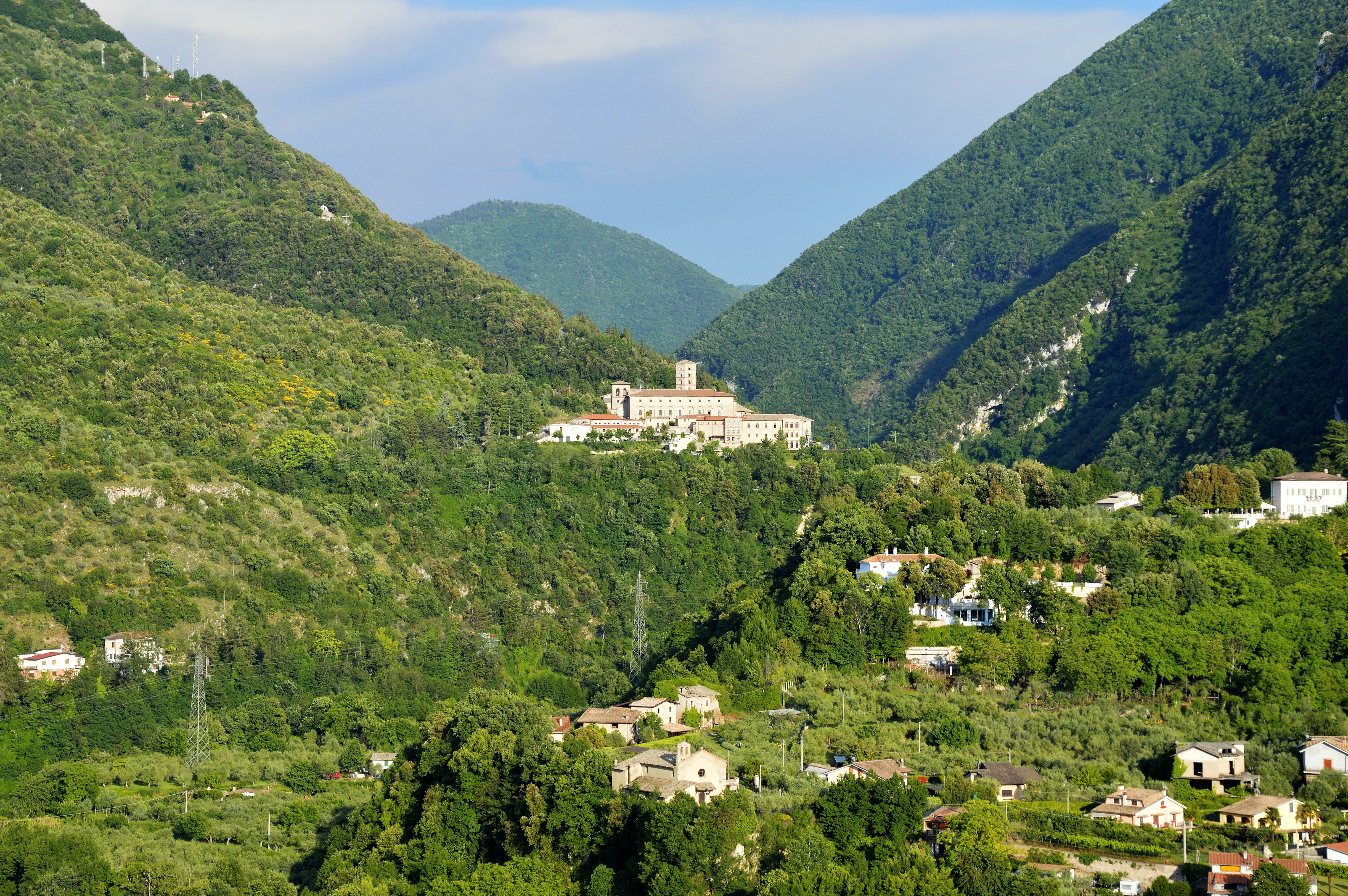 Monastero of Santa Scolastica (Subiaco)